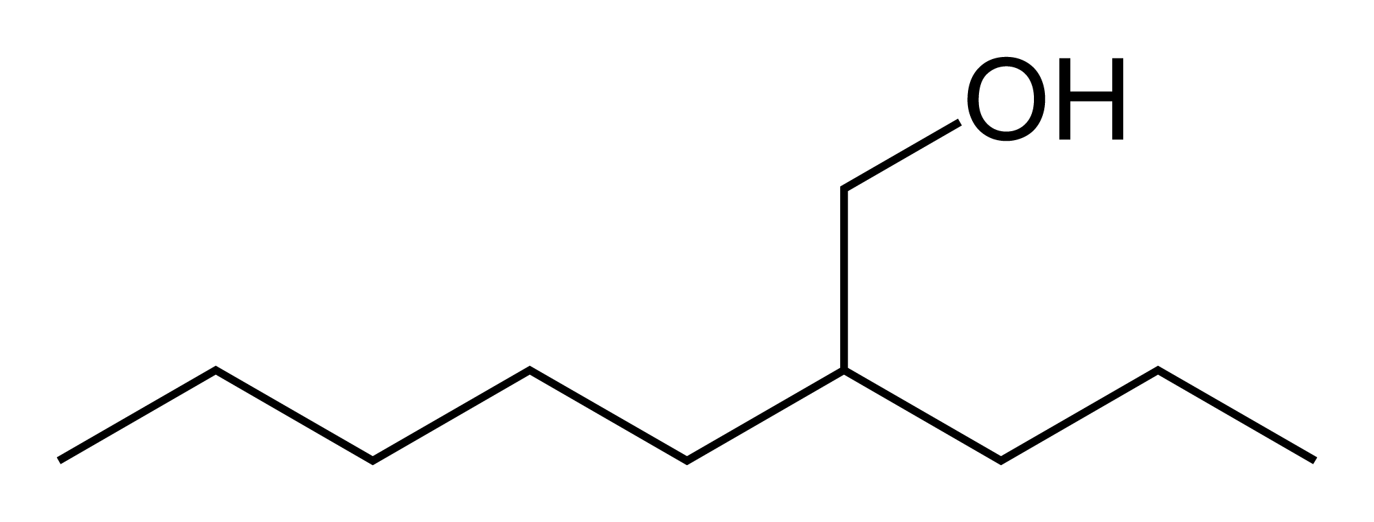 Skeletal formula of the 2-propylheptan-1-ol molecule, C10H22O.